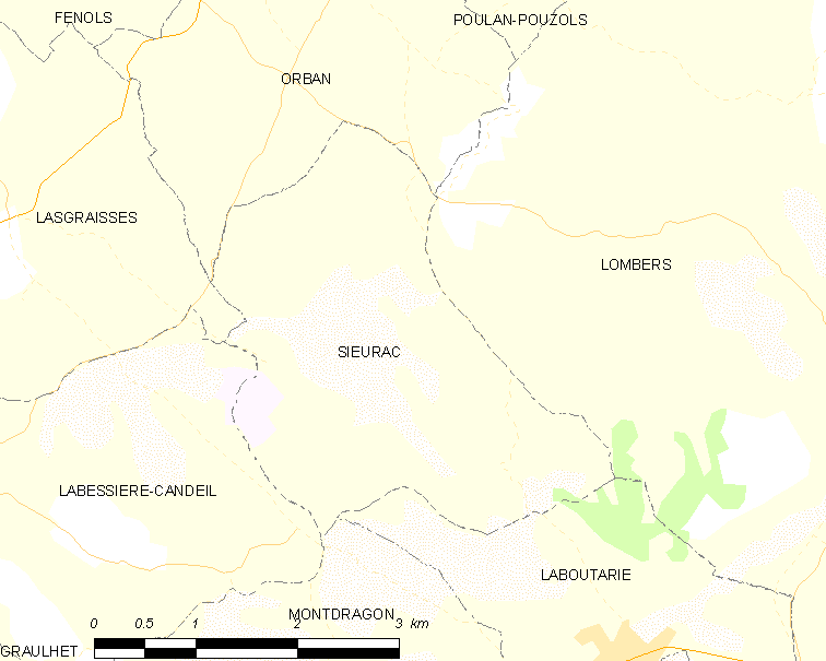 Map of French municipality Sieurac